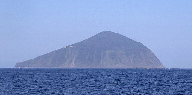 Toshima Island, Izu Islands, Tokyo, Japan